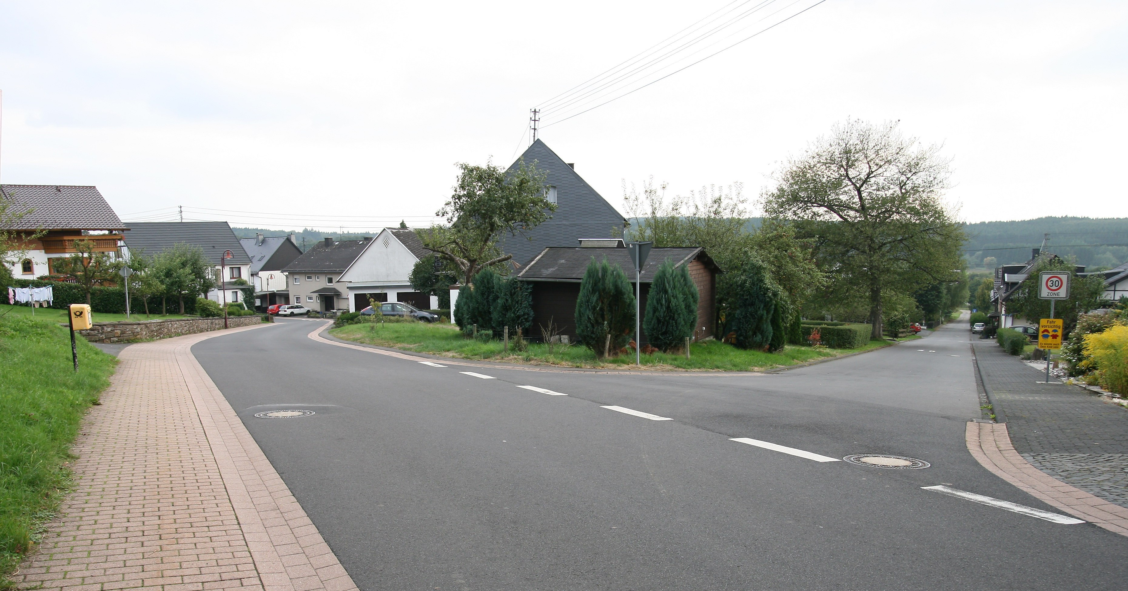 Village view of Schmidthahn hamlet at Weiherstraße/Zur Neumühle crossing, viewed towards south-west, Steinebach an der Wied municipality, Westerwald region, Rhineland-Palatinate, Germany